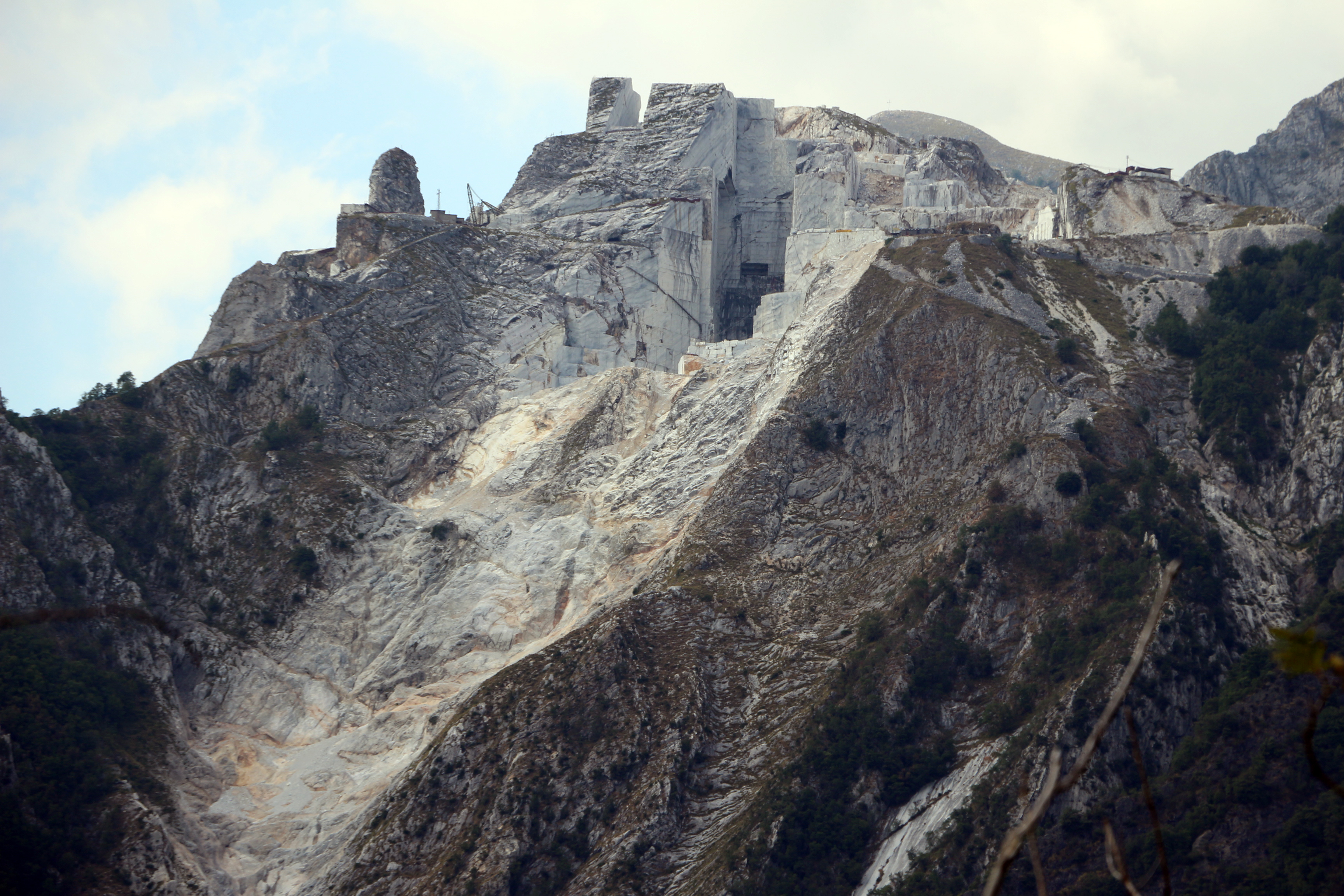 Monte Altissimo (Alpi Apuane)